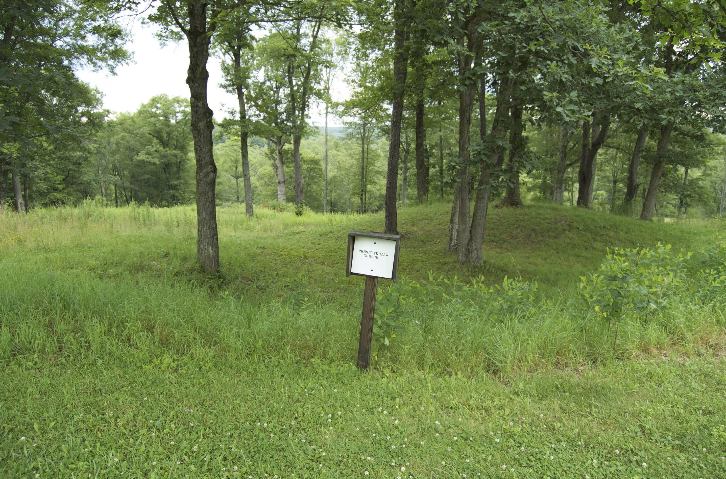 The site of the Presbyterian church in Pithole, Pennsylvania.